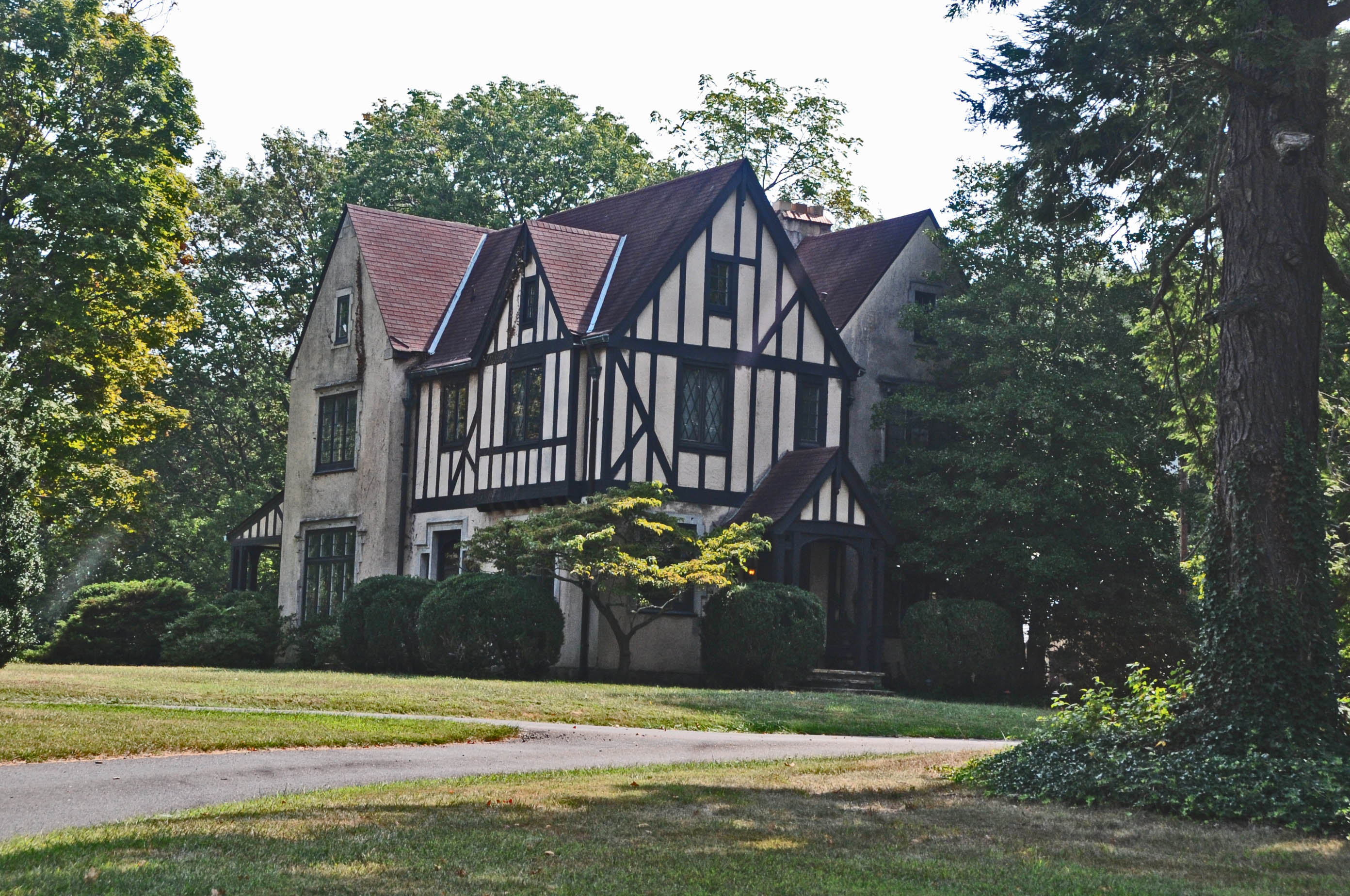 CIRCA 1837 BY CHARLES GREEN, A SAVANNAH COTTOM MERCHANT WHO WAS ARRESTED DURING THE CIVIL WAR AS A CONFEDERATE SPY